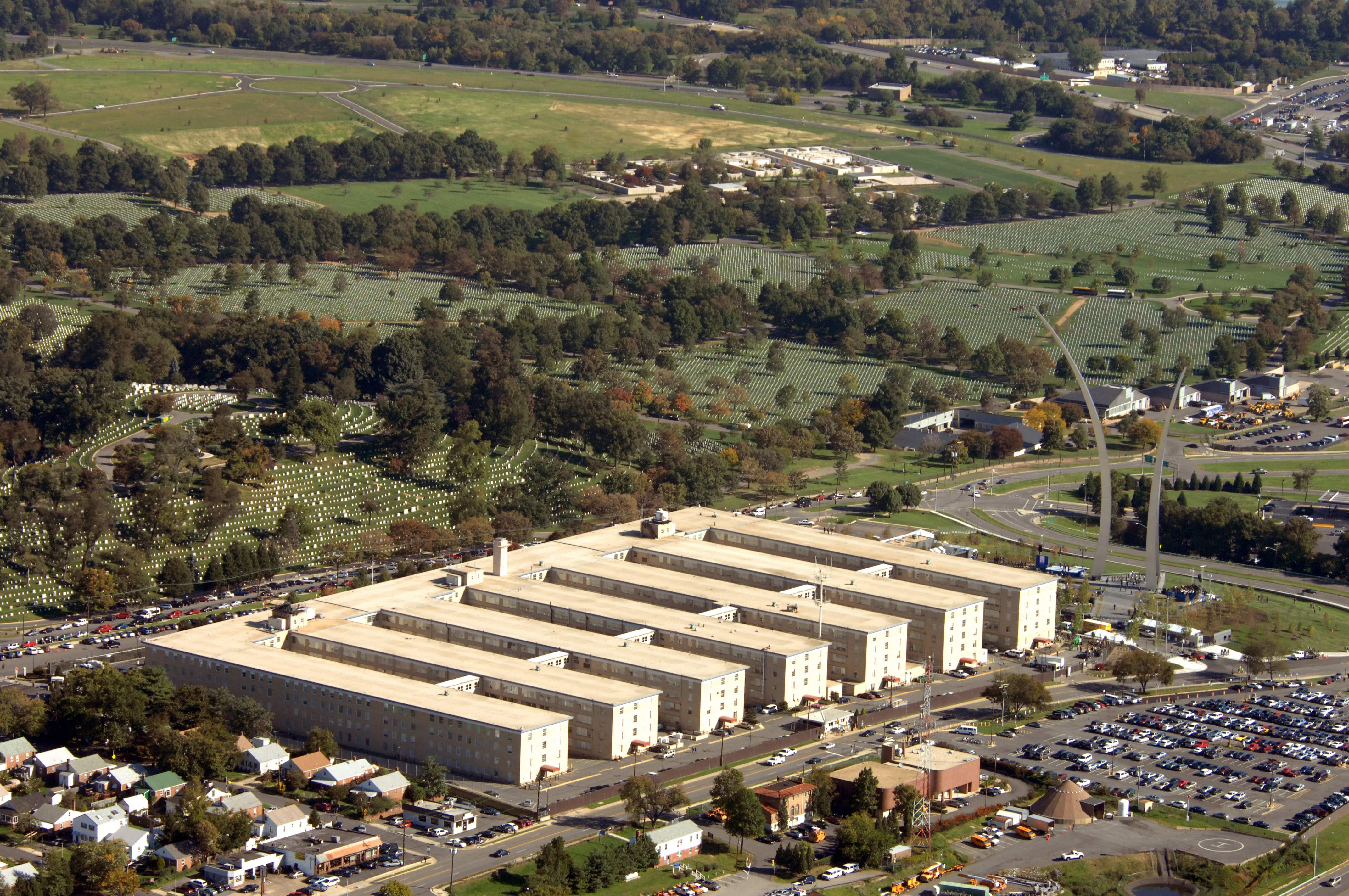 ARLINGTON, Va. (Oct. 14, 2006) - View over the U.S. Navy Annex, showing the completed U.S. Air Force memorial scheduled for dedication on Saturday, October 14, 2006. U.S. Air Force photo by Master Sgt. Gary R Coppage (Released)